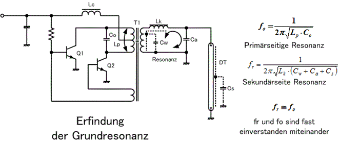 DE version